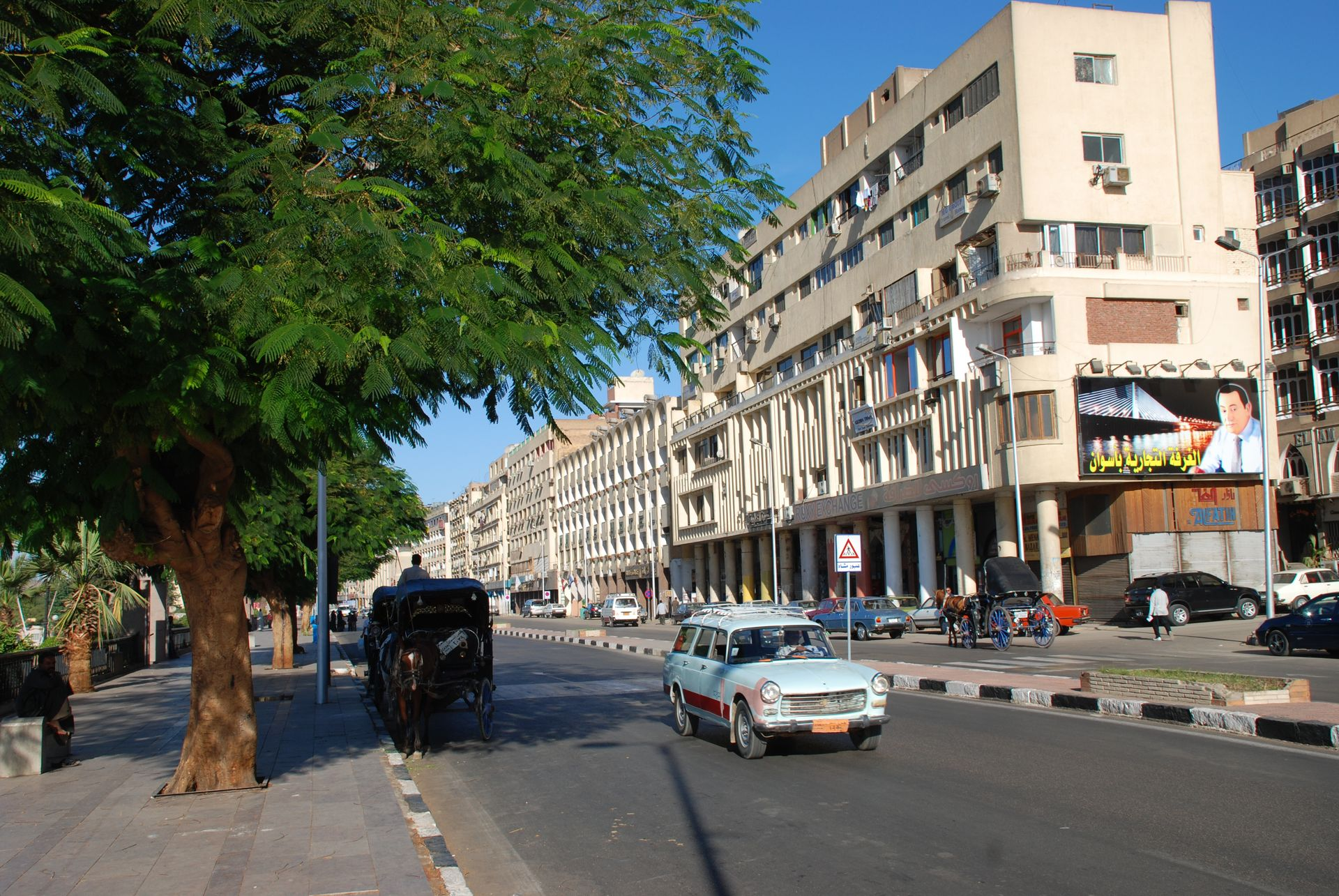 Aswan, Egypt, Corniche an-Nil